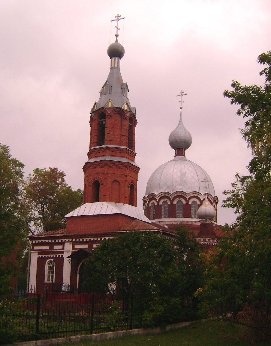 Church of the Protection of the Theotokos in Krasnogorskoye (Svyatogorskoye) village, Udmurtia